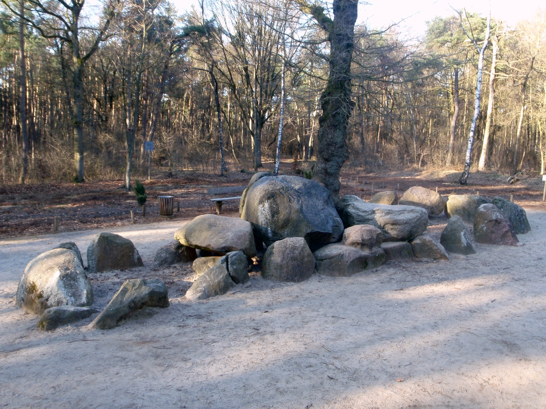 Dolmen "Devil's stones" nearby Heiden, Kreis Borken, North-Rhine-Westphalia in Germany. Photo was taken 20/03/2011.